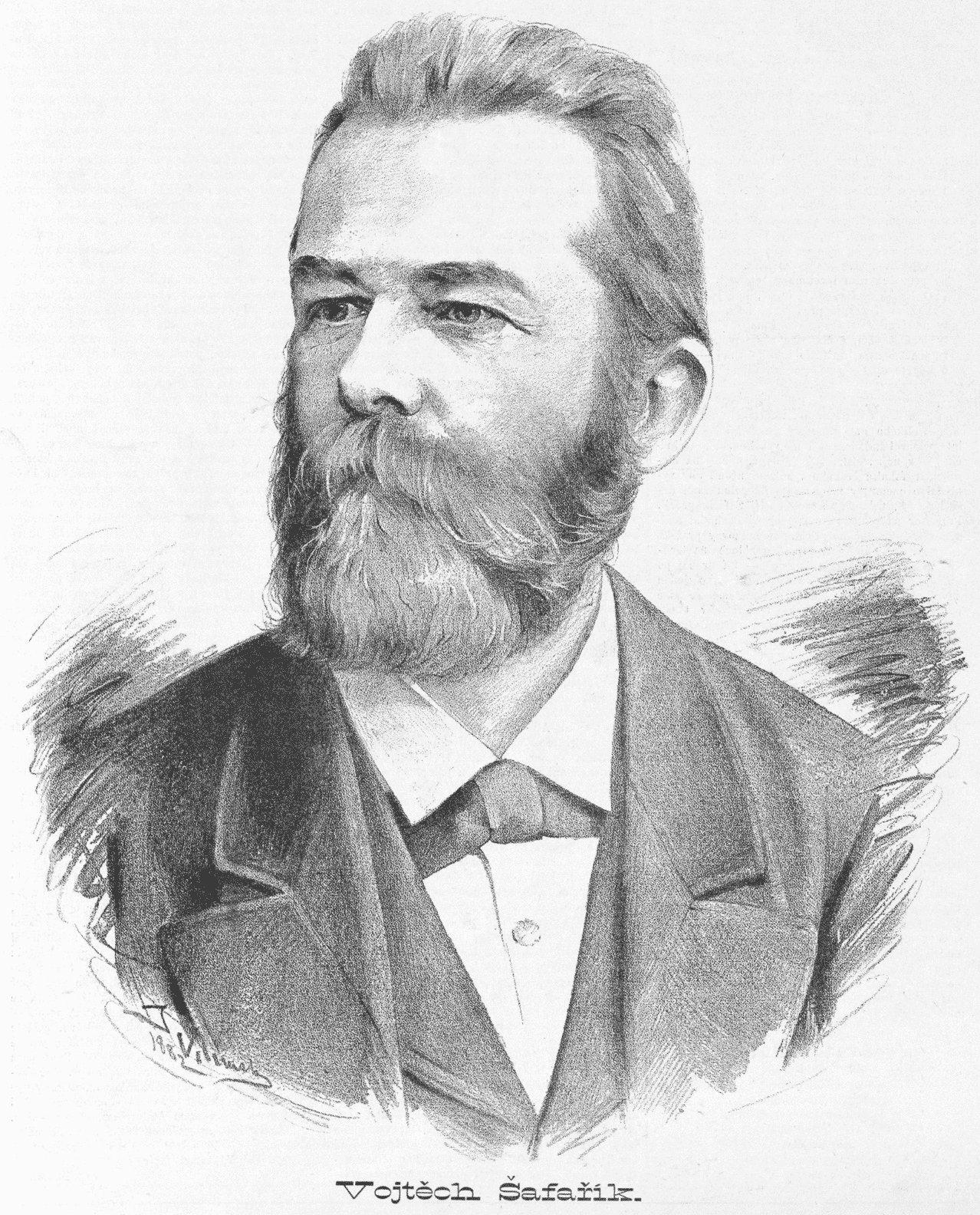 Portrait of Vojtěch Šafařík, Czech chemist.